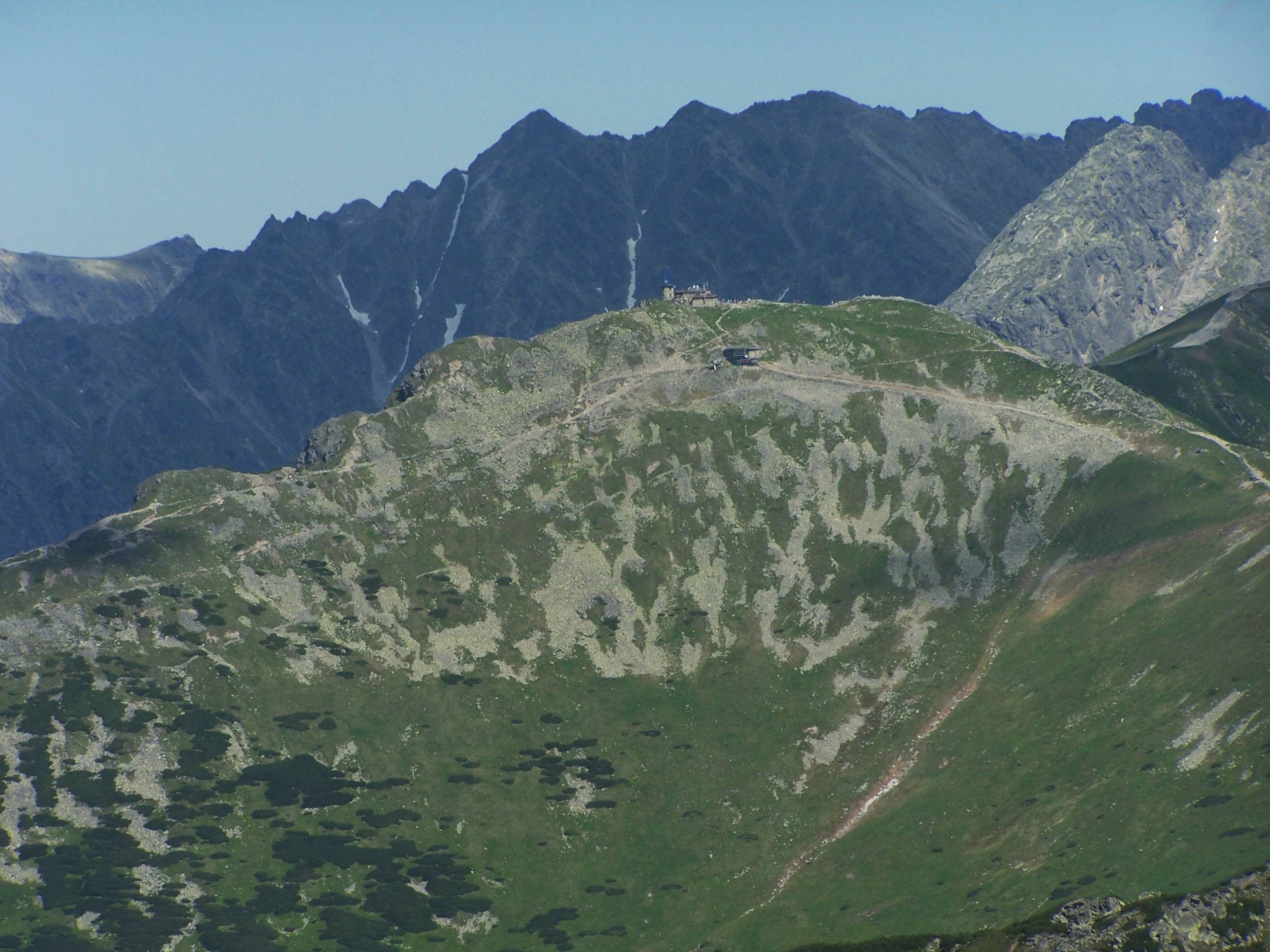 Kasprowy Wierch (Tatra Mountains)